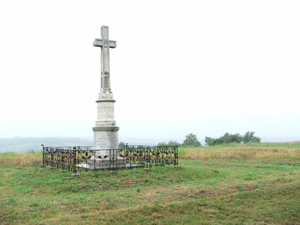 Site of the Battle of Petrovaradin, Vojvodina, Serbia